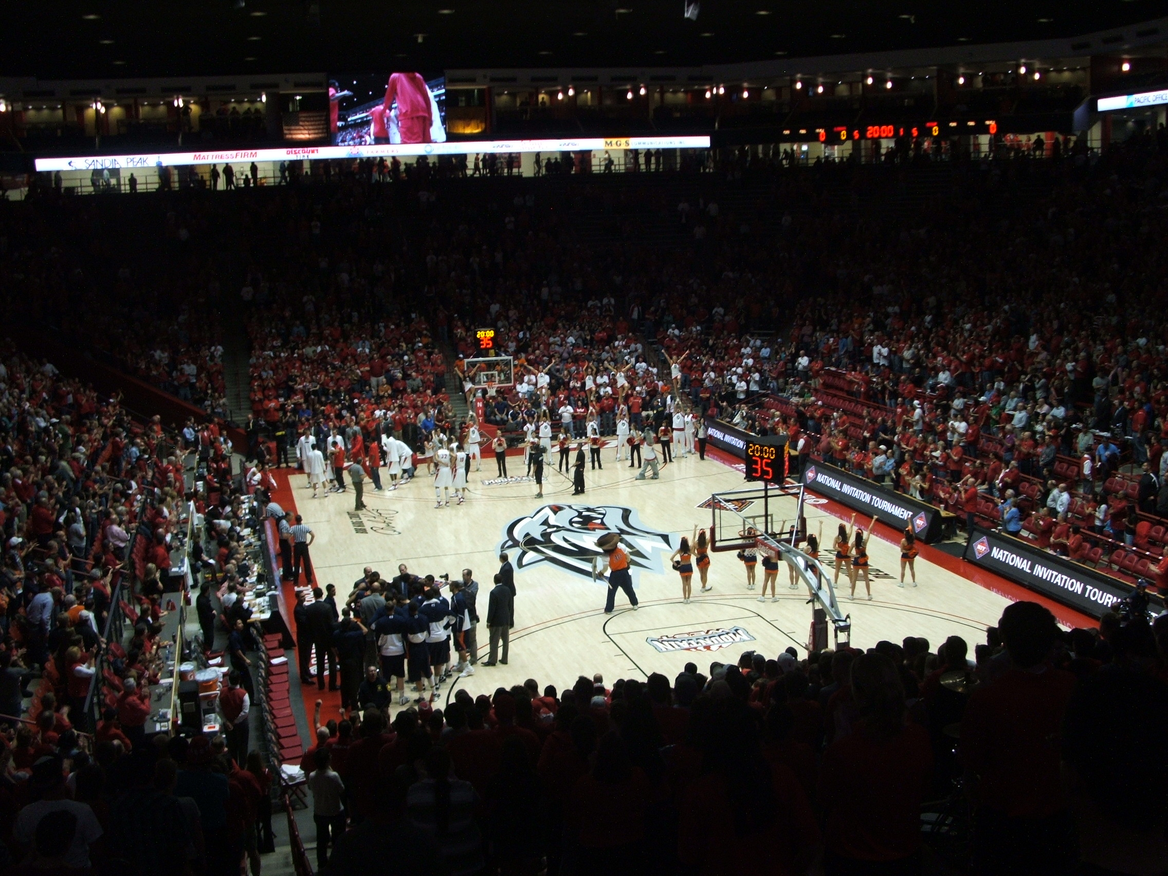 Inside of The Pit arena at the University of New Mexico.